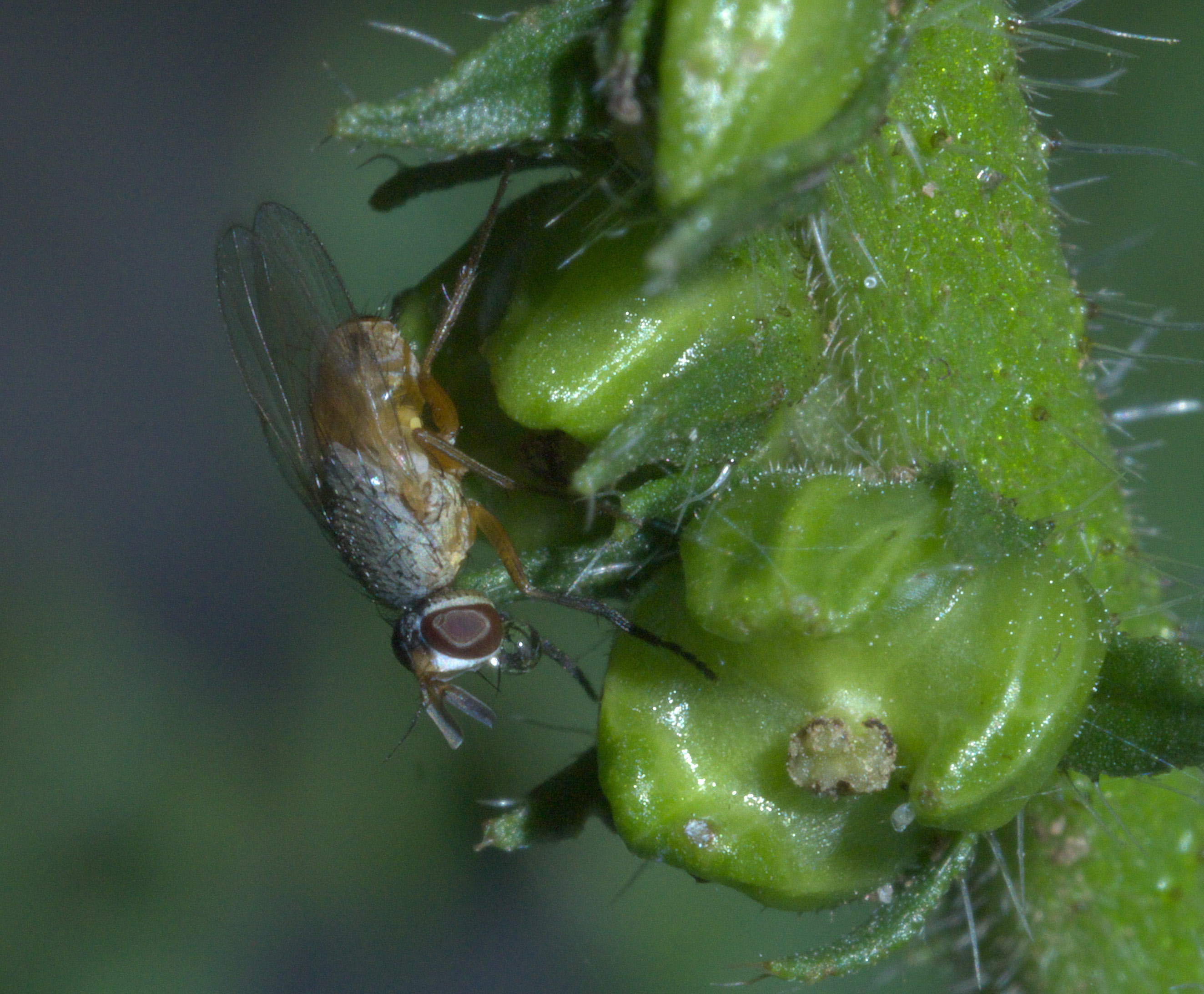 Atherigona reversura, bermudagrass stem maggot, recent introduction from Asia, Size: 3.1 mm, ID Confidence: 98